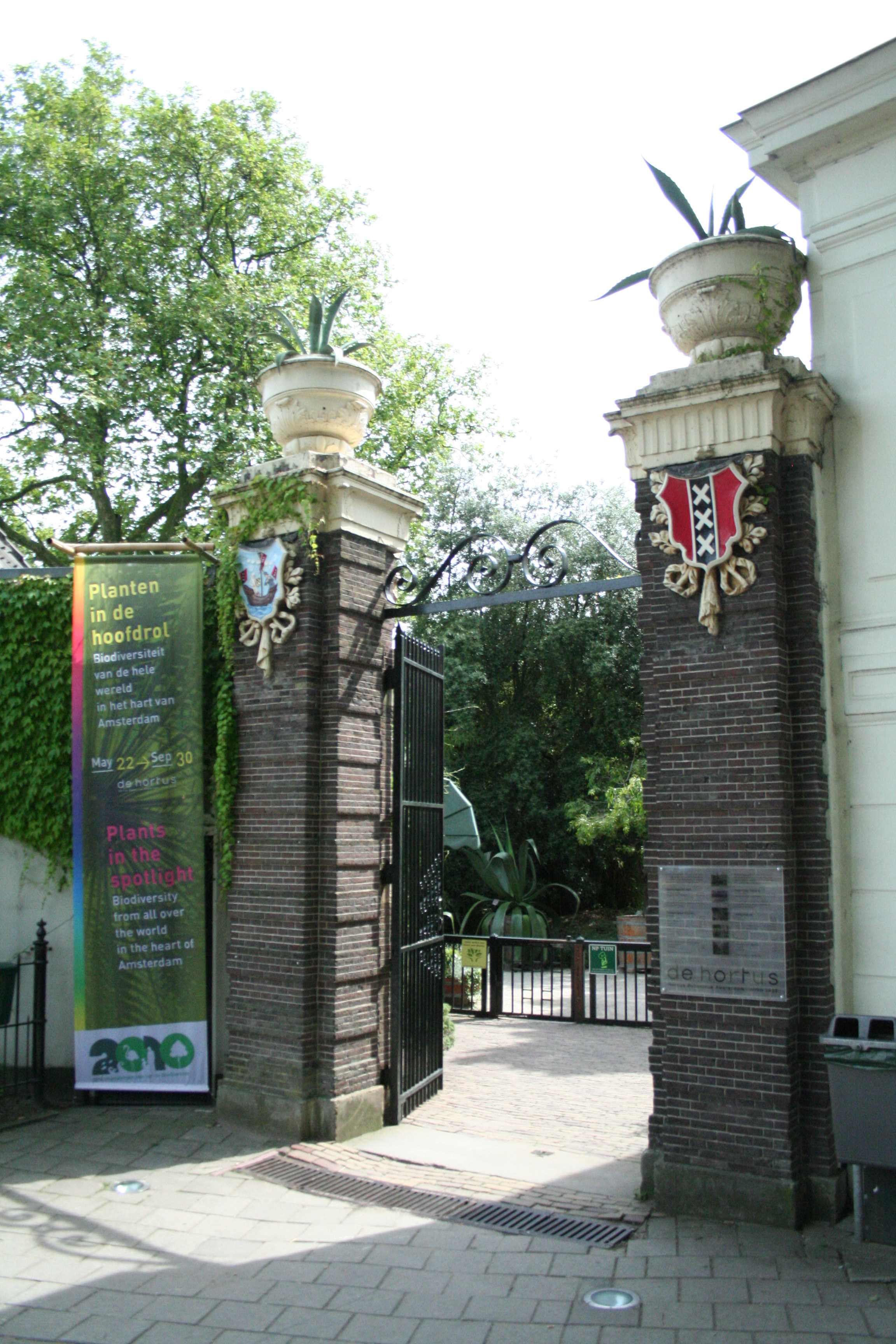 The Hortus Botanicus Amsterdam entrance Photo by Pejman Akbarzadeh Persian Dutch_Network